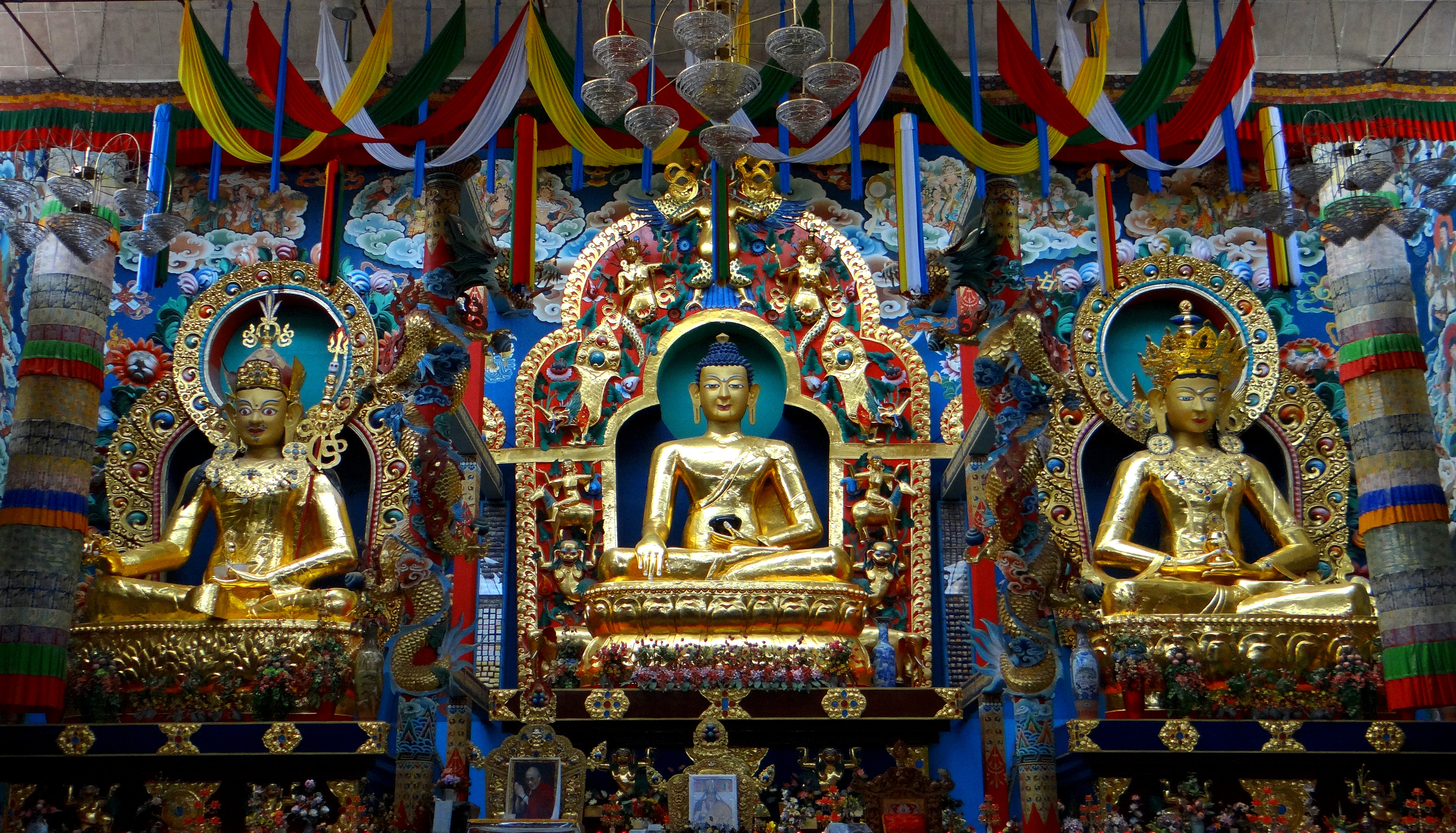 Namdroling Monastery